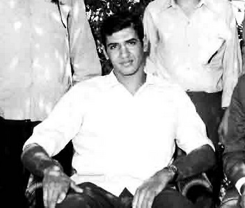 Khaled Abdel Nasser in Lebanon at a scouting event